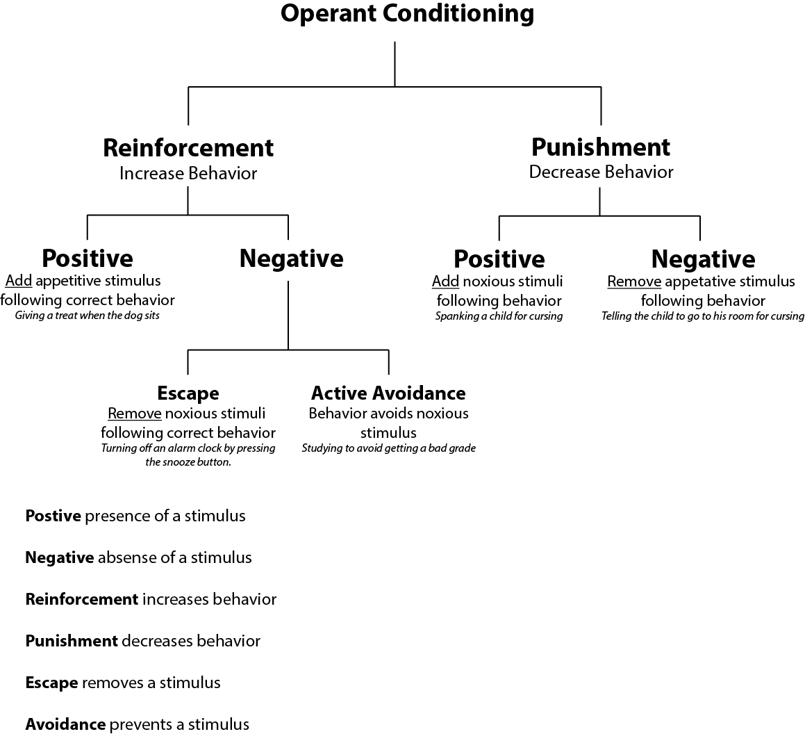 This is the hierarchy of operant conditioning.